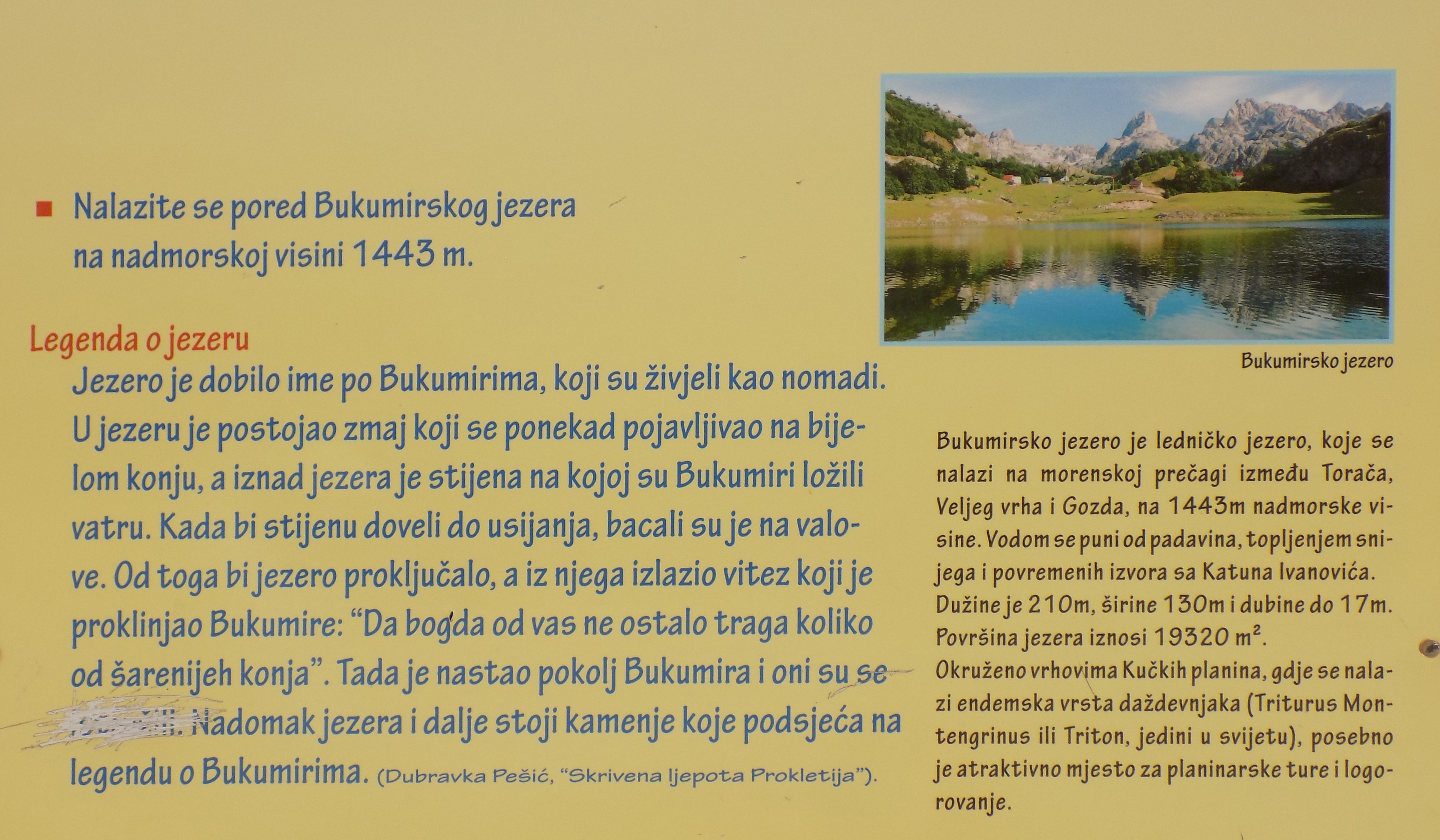 Bukumirsko lake, Montenegro. info board